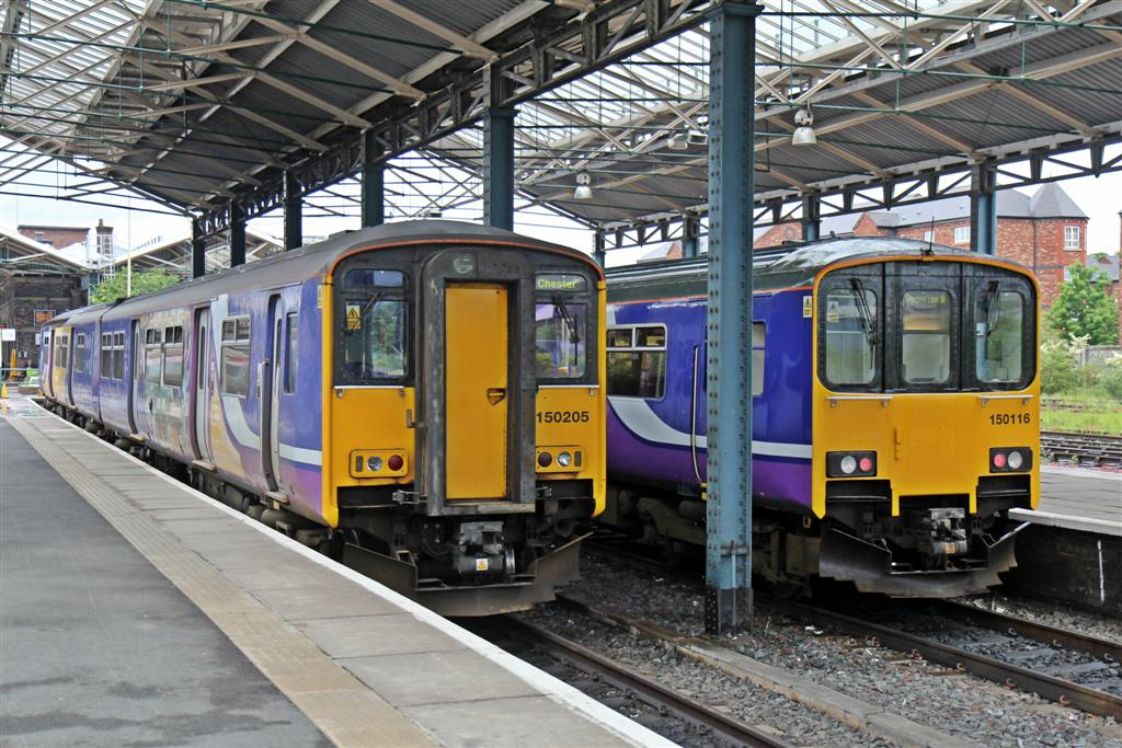 Sprinter units, Chester Railway Station